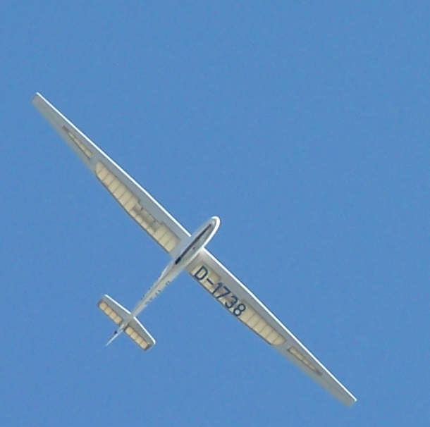 Glider L-Spatz 55, D-1738, airfield EDMB 20050925, Pilot Sabine Bergner